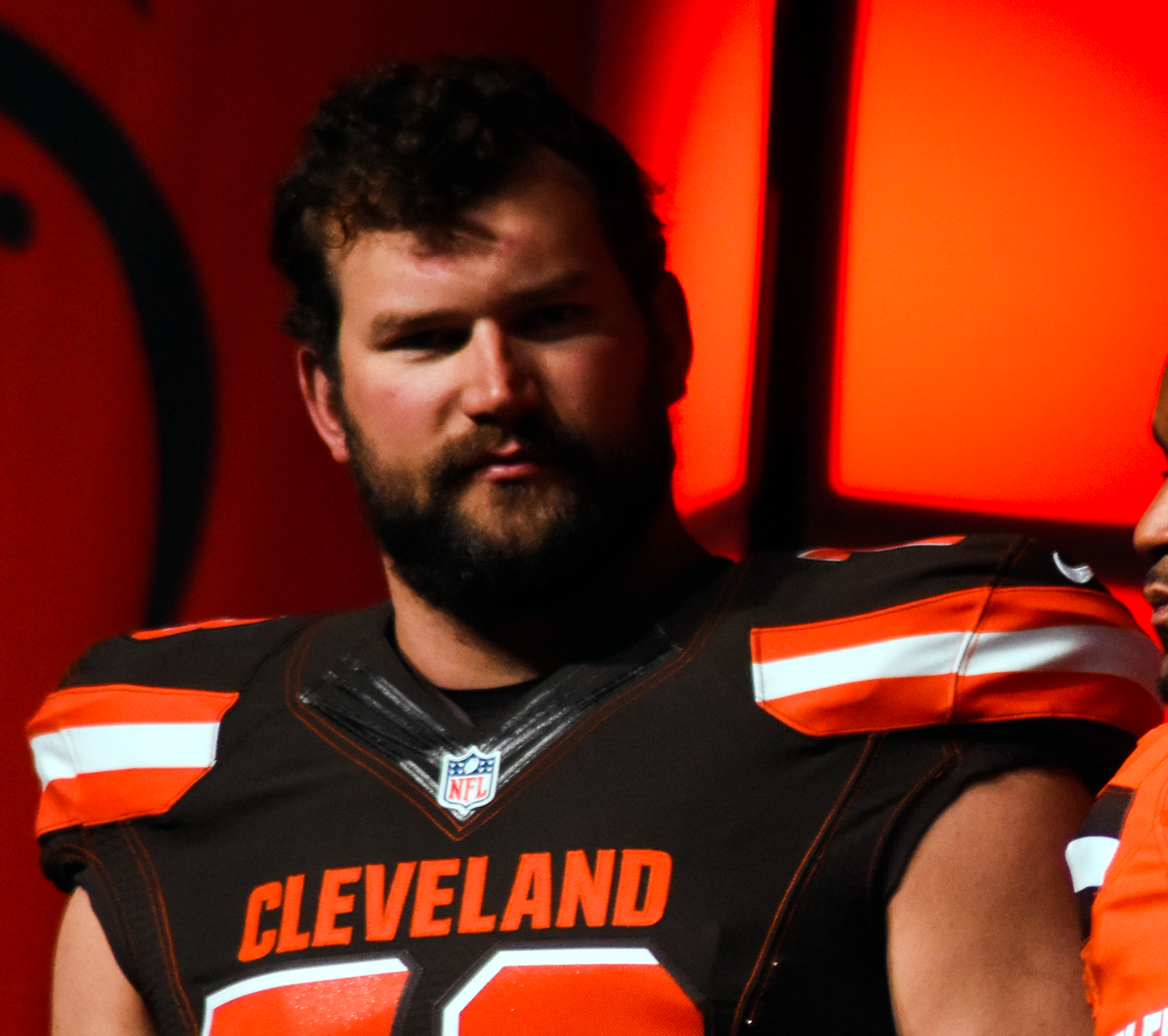 Cleveland Browns New Uniform Unveiling